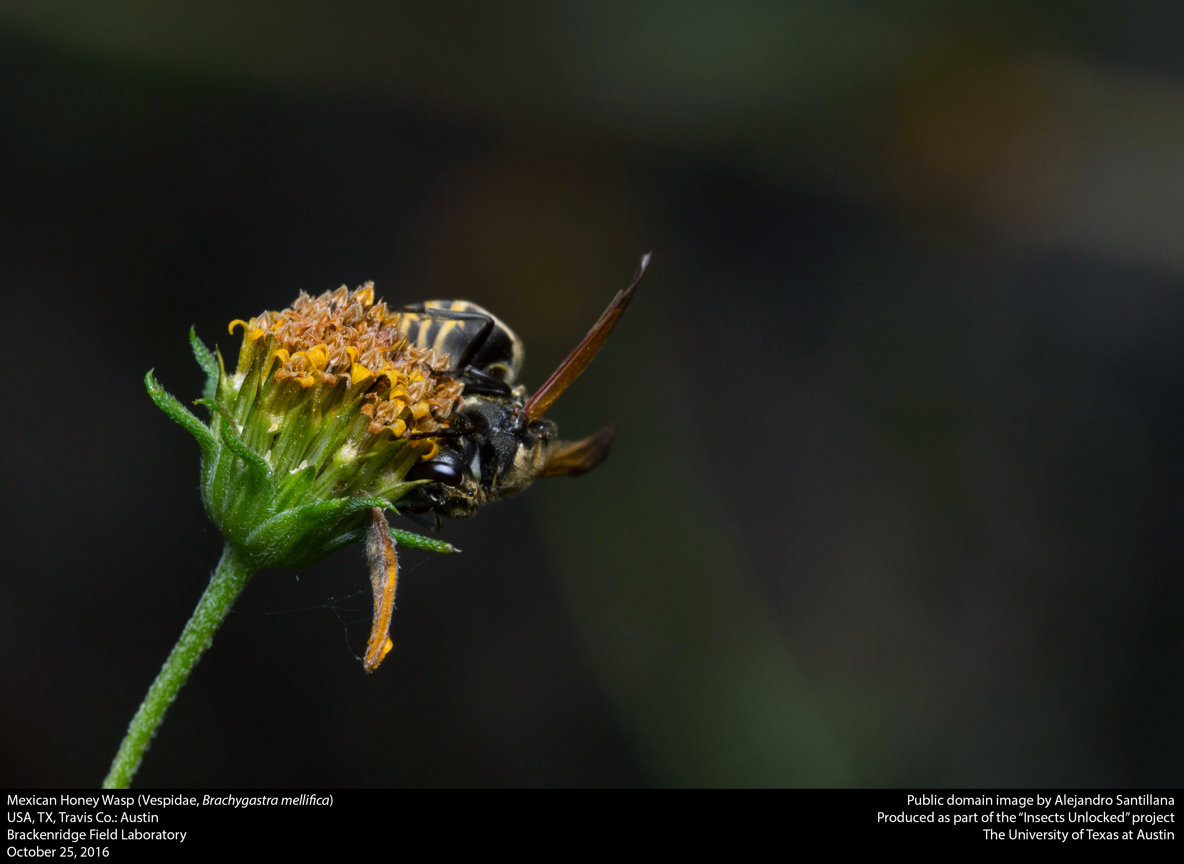 USA, TX, Travis Co.: Austin Brackenridge Field Laboratory 25-x-2016